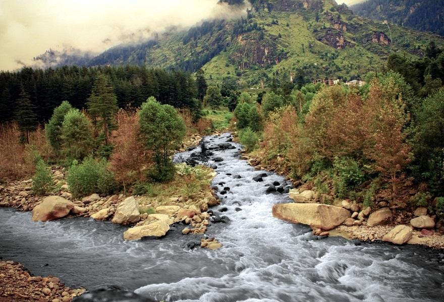 Stream of Beas river in manali!